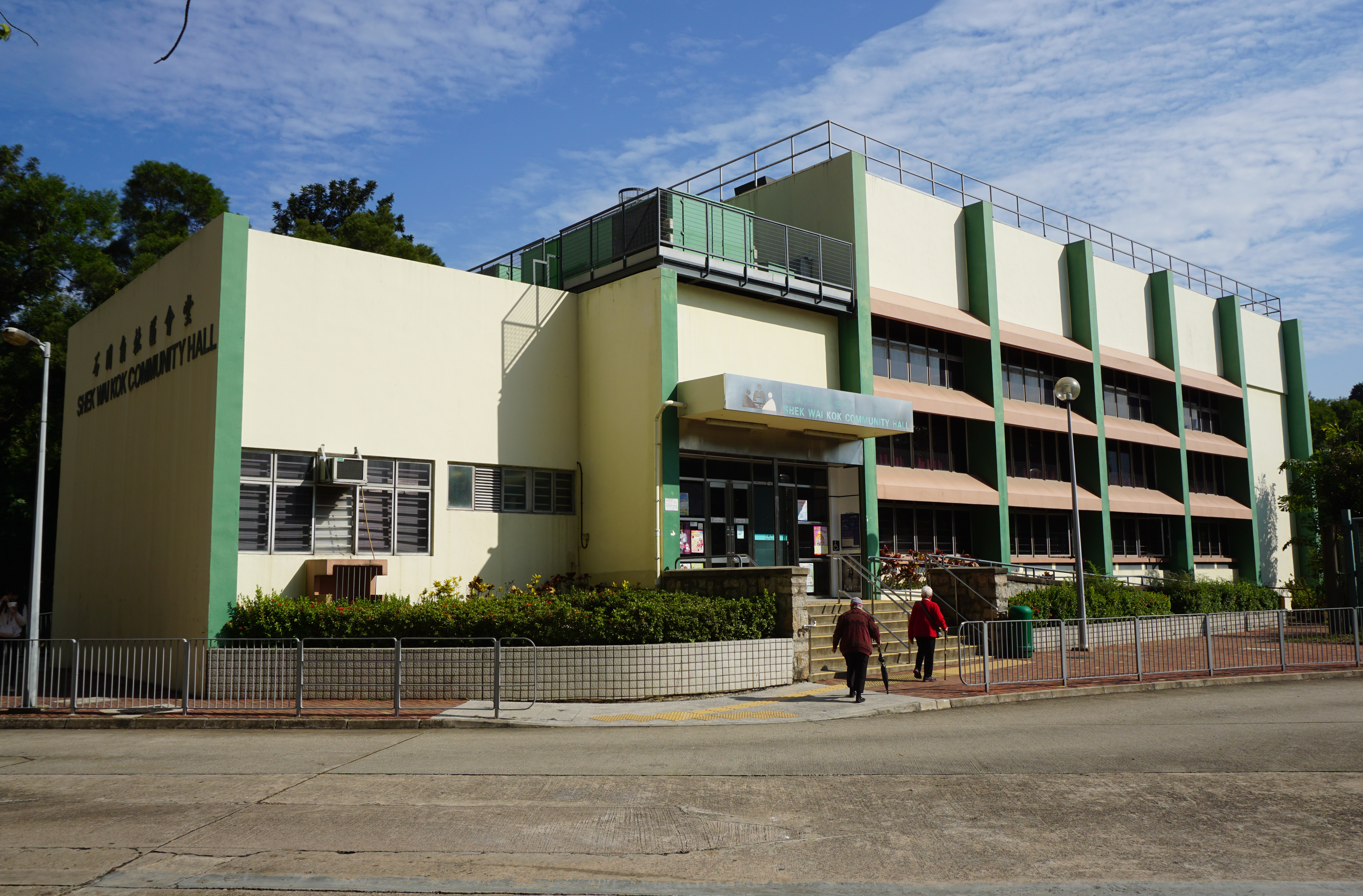 Shek Wai Kok Community Hall in Tsuen Wan, Hong Kong.